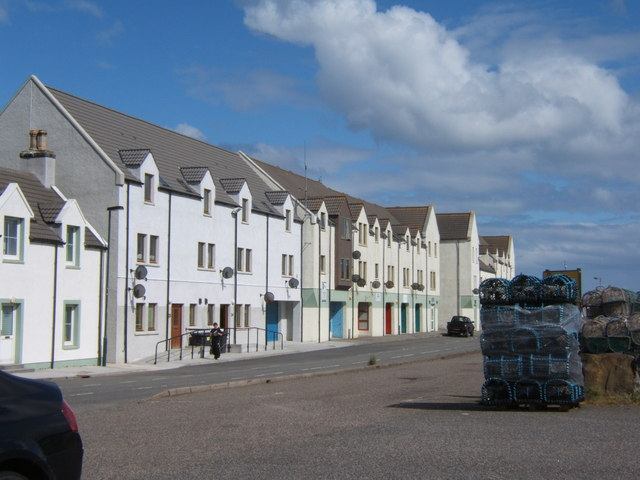 Shops, Housing and Lobster Pots The A865 through Lochboisdale to the ferry terminal.